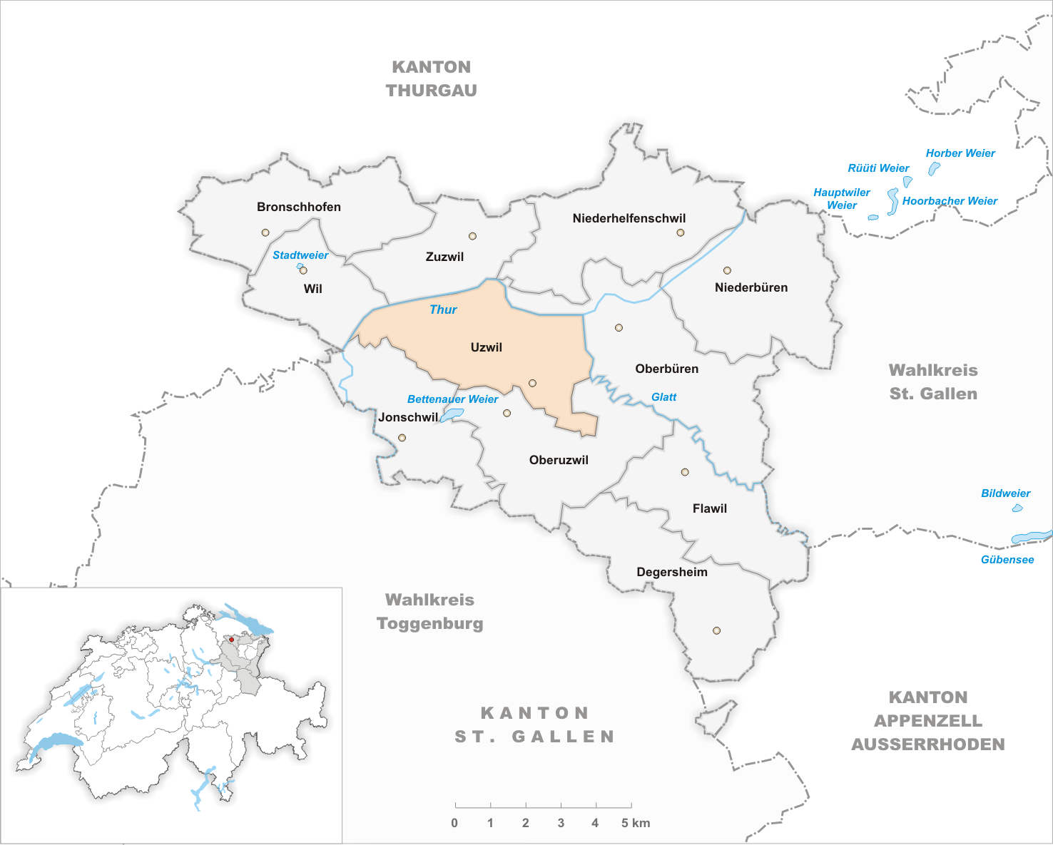 Municipality Uzwil